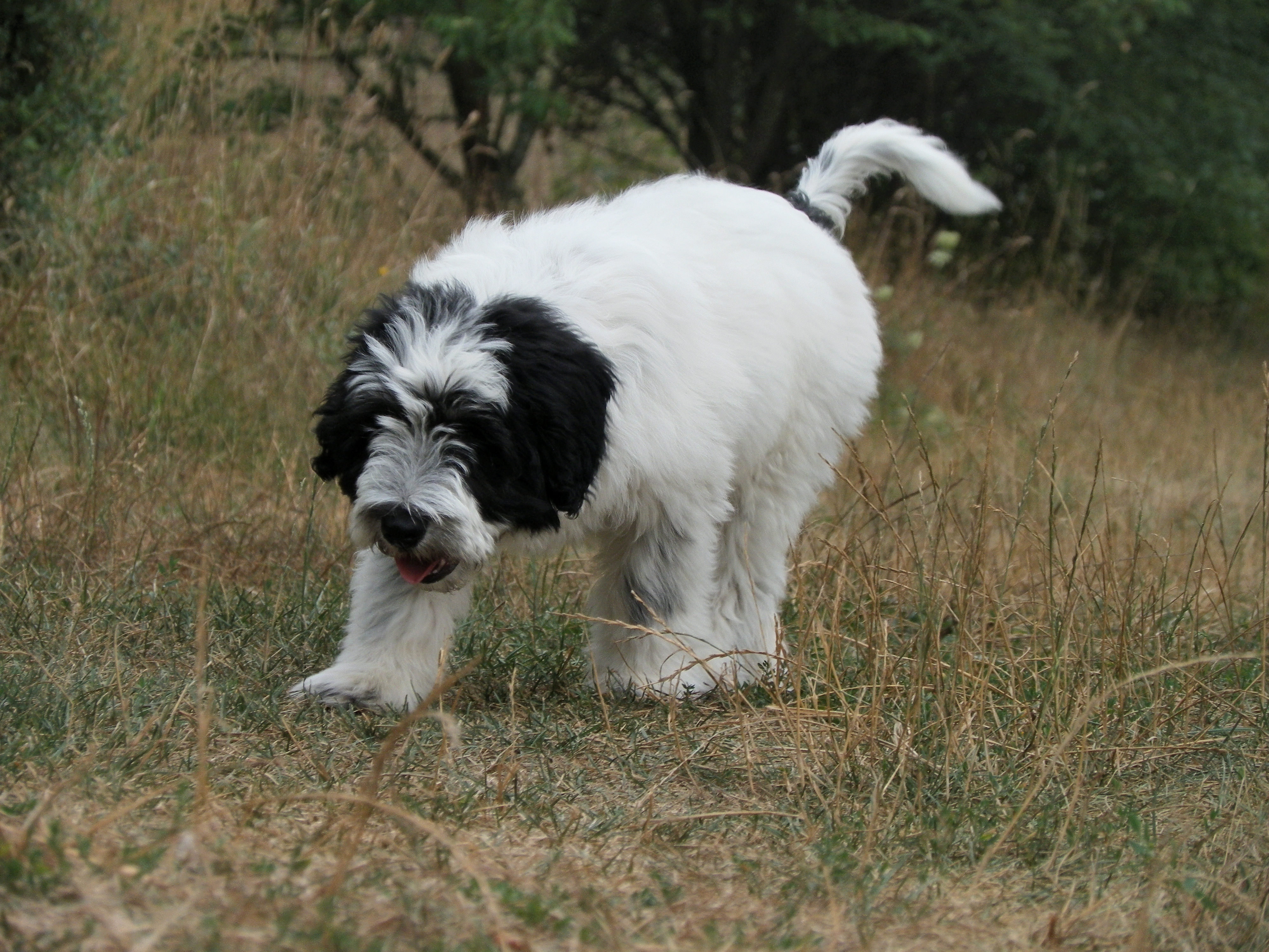 Polish Lowland Sheepdog, a 3-months old male puppy.